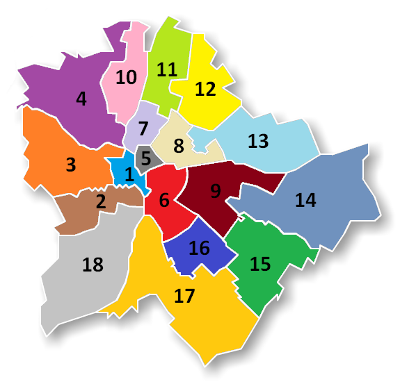 Map of Budapest's constituencies since 2011.